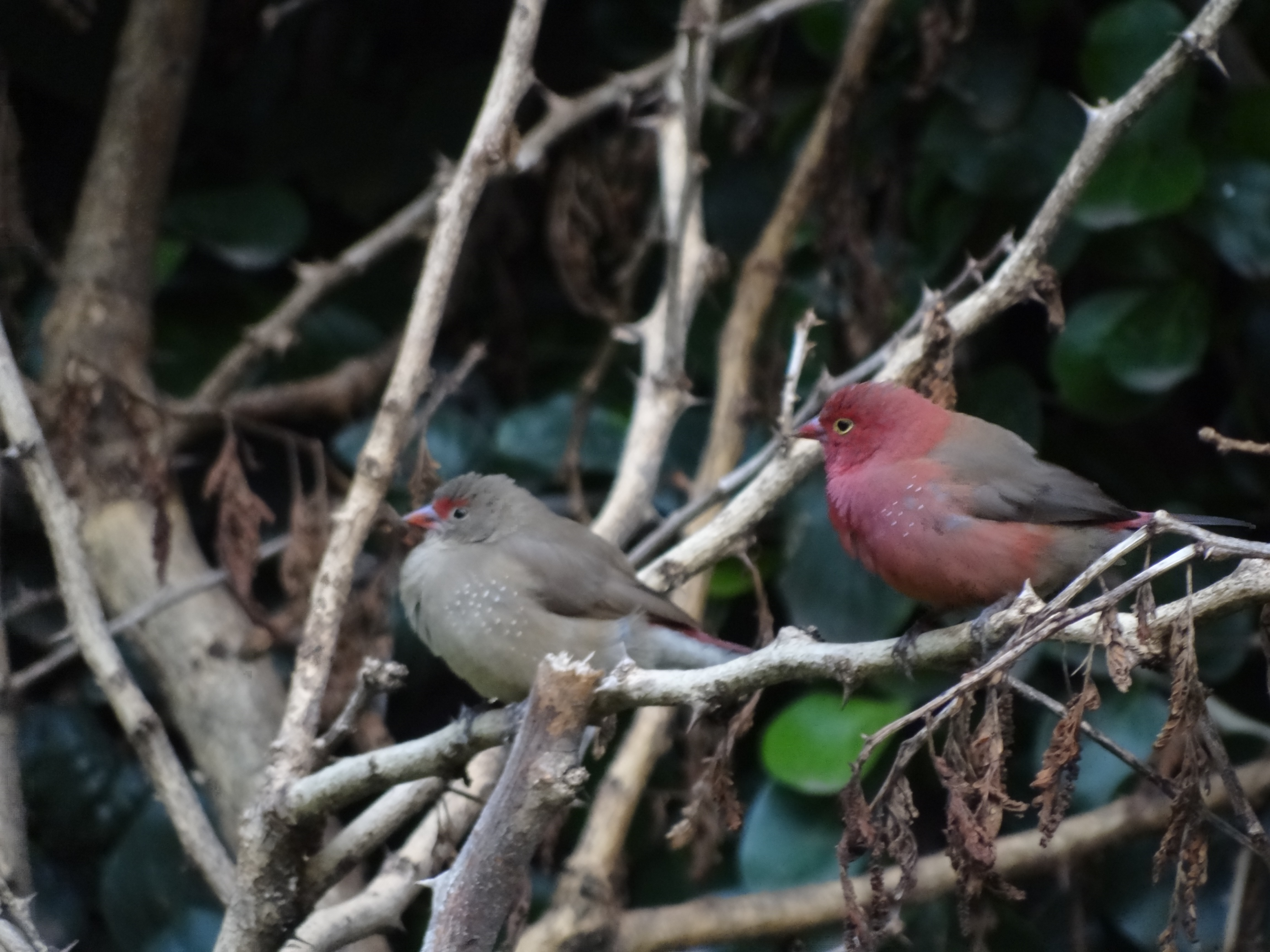 A pair of Red-billed Firefinches in Babogaya, Ethiopia.